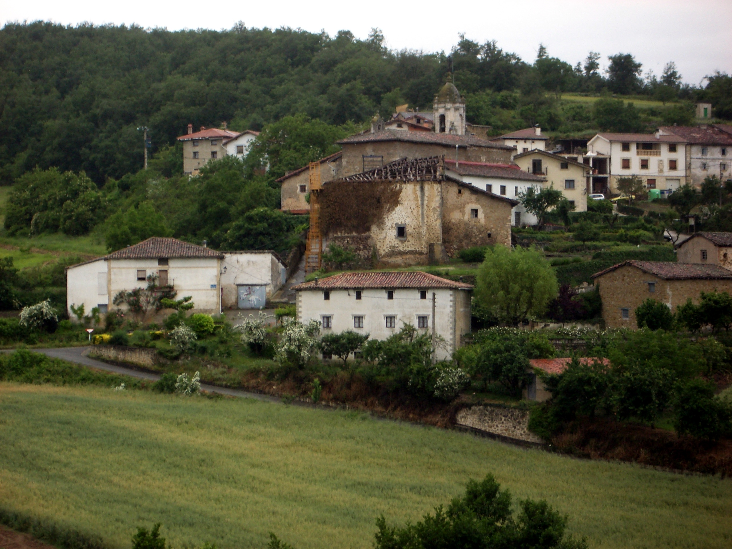 General view of Bujanda, Campezo (Spain)